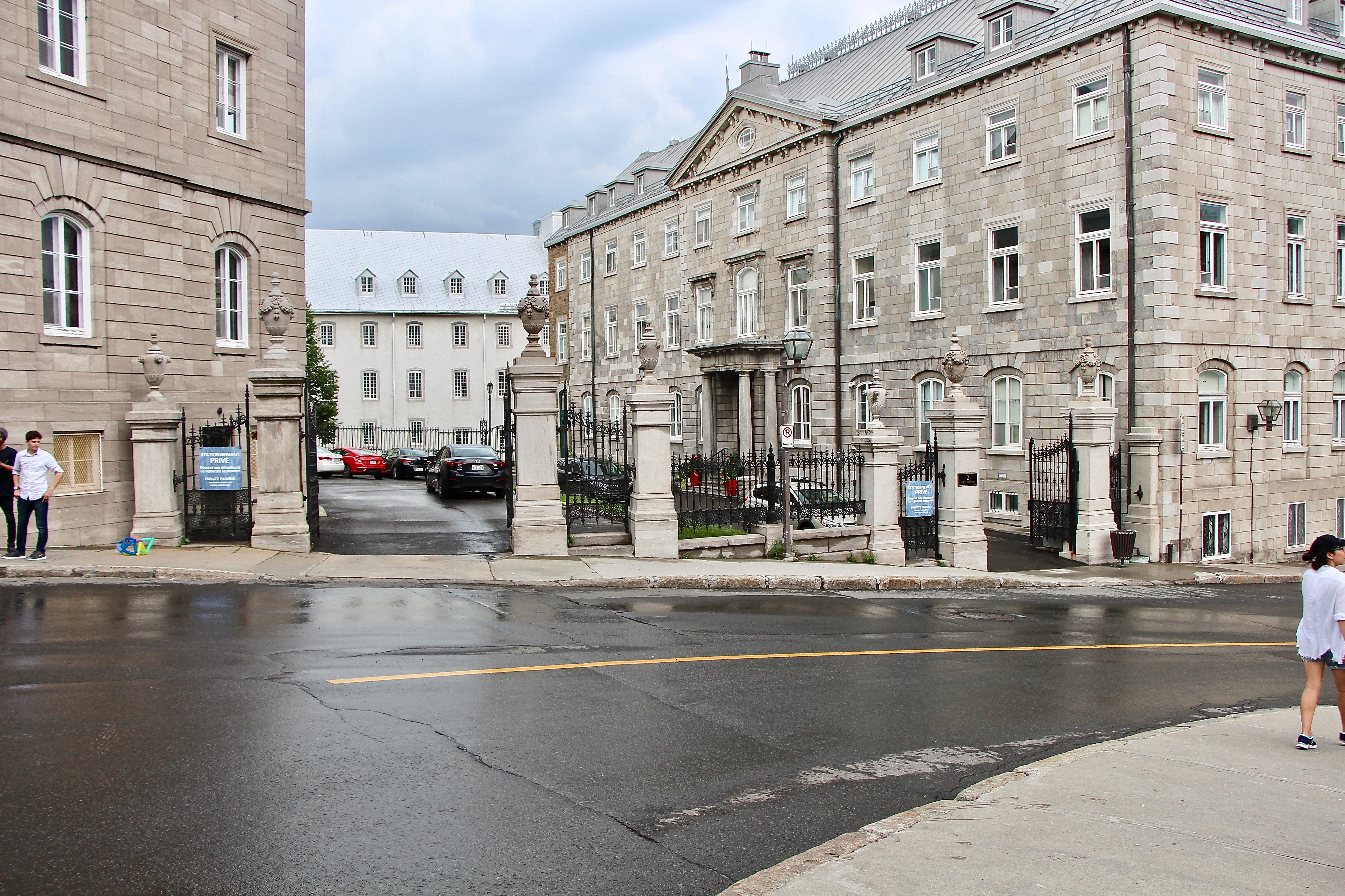 Gate of the Seminary of Quebec City, 1 Des Remparts Street, Quebec City, Quebec, Canada.